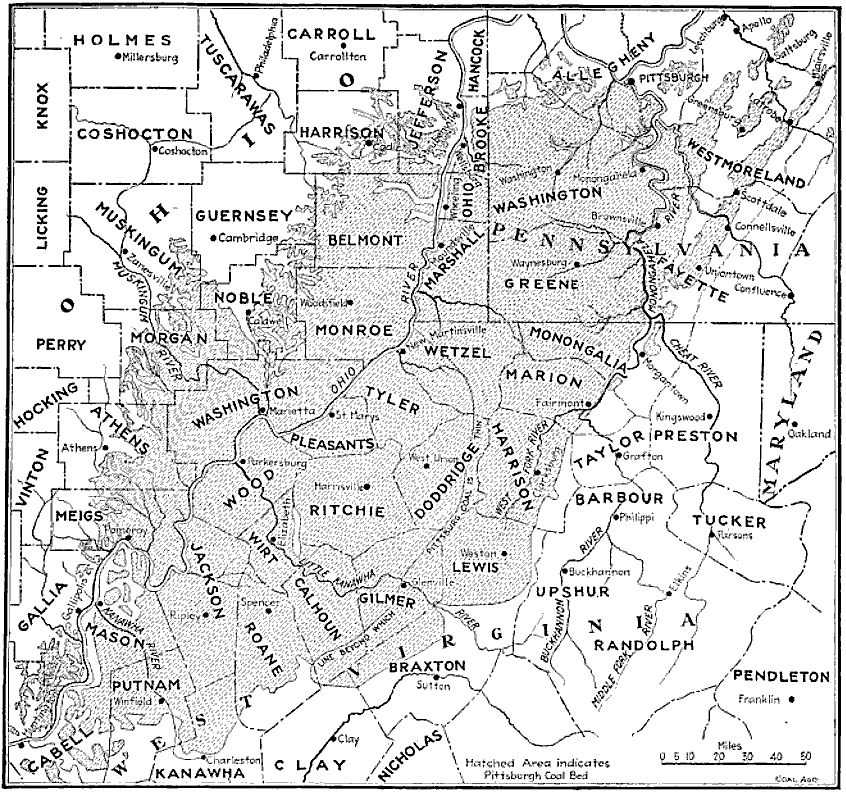 Original Caption: "Map of the Horizon of the Pittsburgh Coal Bed in Pennsylvania, West Virginia and Ohio -- The Maryland deposit is excluded. It will be noted in the illustration that in West Virginia there is a line which shows where the Pittsburgh bed becomes thin and of little commercial value. While some of the deposits west of that line in Ohio are of considerable value, many are utterly valueless, and some are mere traces. In other places, the bed is missing and its horizon alone can be determined. As this is a map covering the horizon of the coal bed and not its actual presence, the profitable coal area, especially in Ohio and West Virginia, will be considerably smaller than that shown."